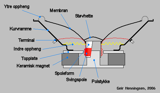 Electrodynamic loudspeaker cross-section